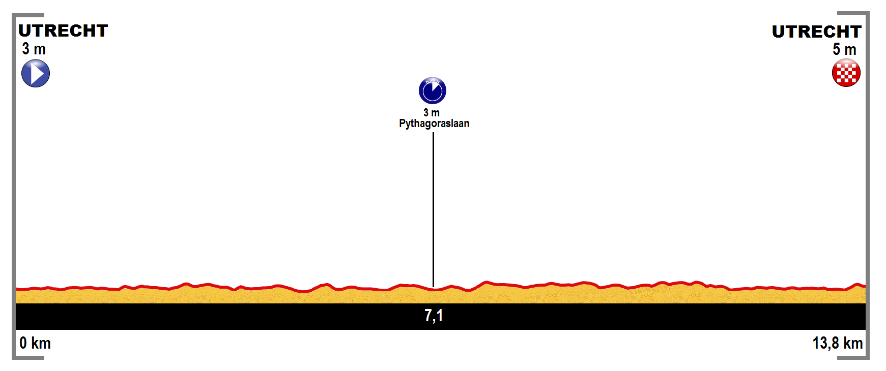 Stage 1 profile Tour de France 2015